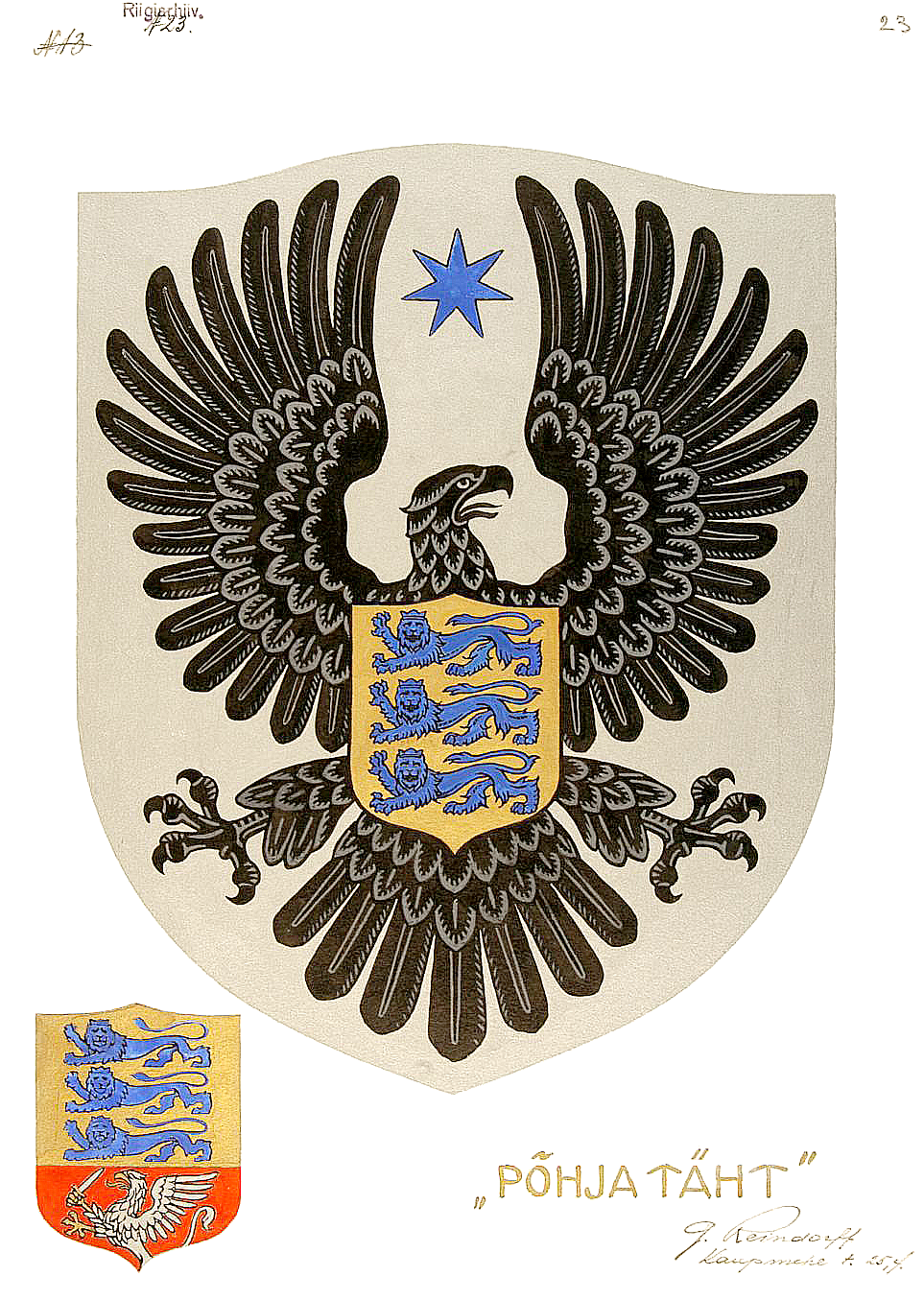 According to the Republic of Estonia Copyright law Public sources: Copyright does not apply to works of folklore, legislation and administrative documents, court decisions and official translations thereof; official symbols of the state and insignia of organisations. Copyright does not apply to reproduction of work by libraries, archives or museums.